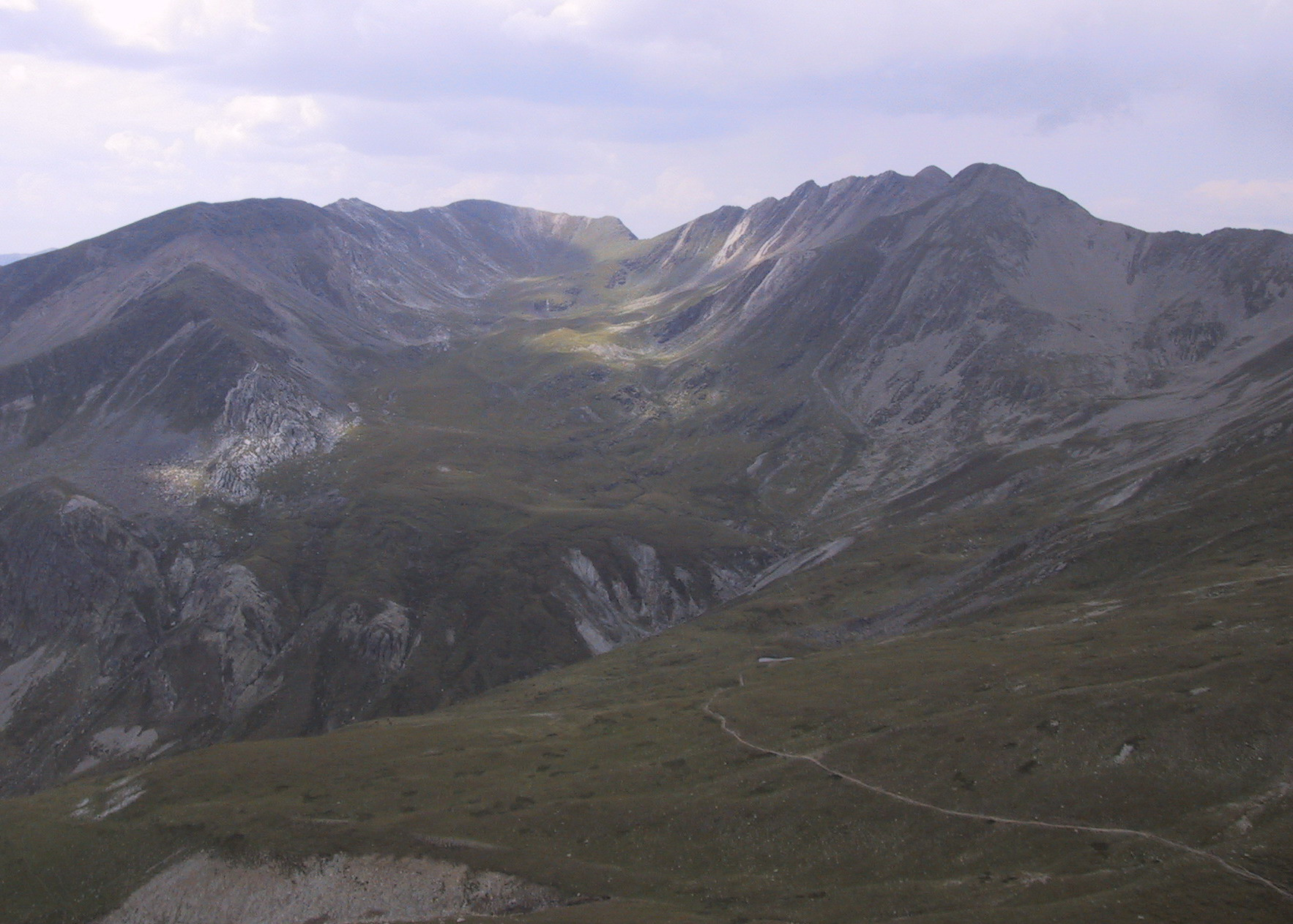 Coll de Tirapits, pic de Freser i pic de l'Infern, as seen from coll de la Marrana